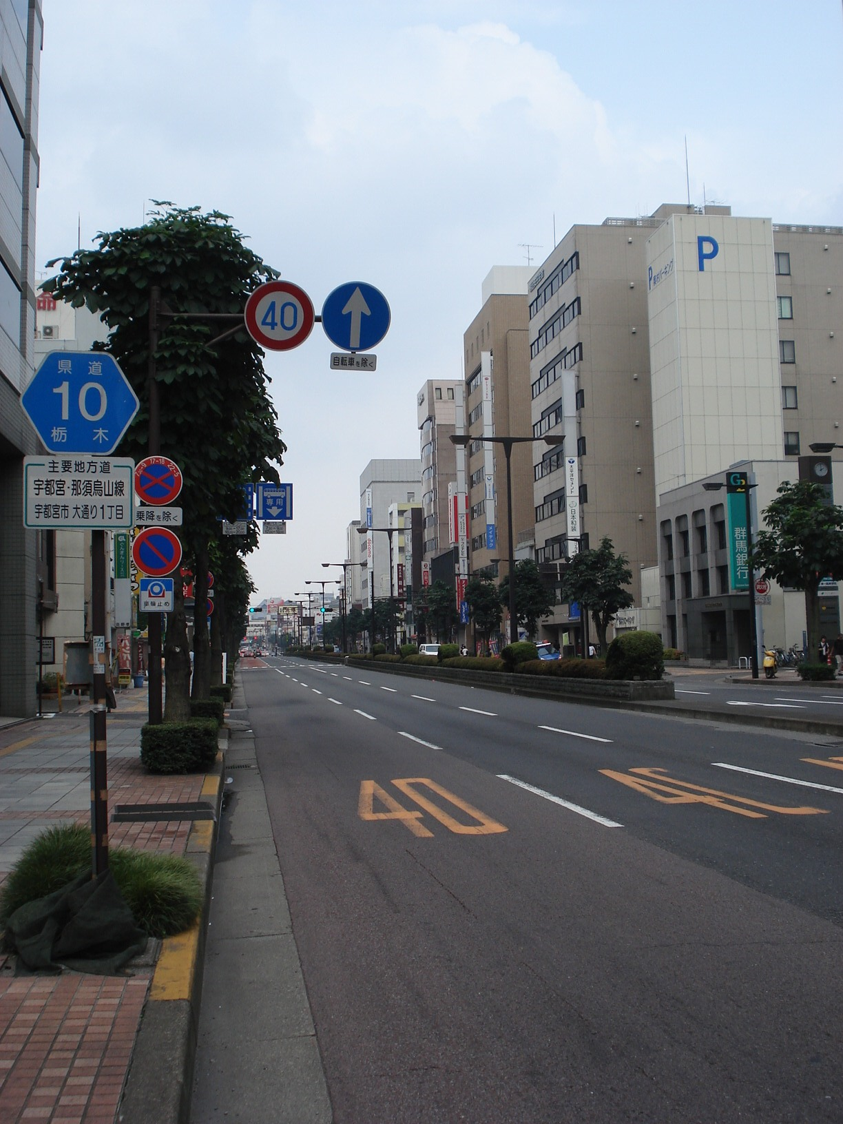 The Tochigi Prefectural Road Route 10 in Odori 1-chome, Utsunomiya City